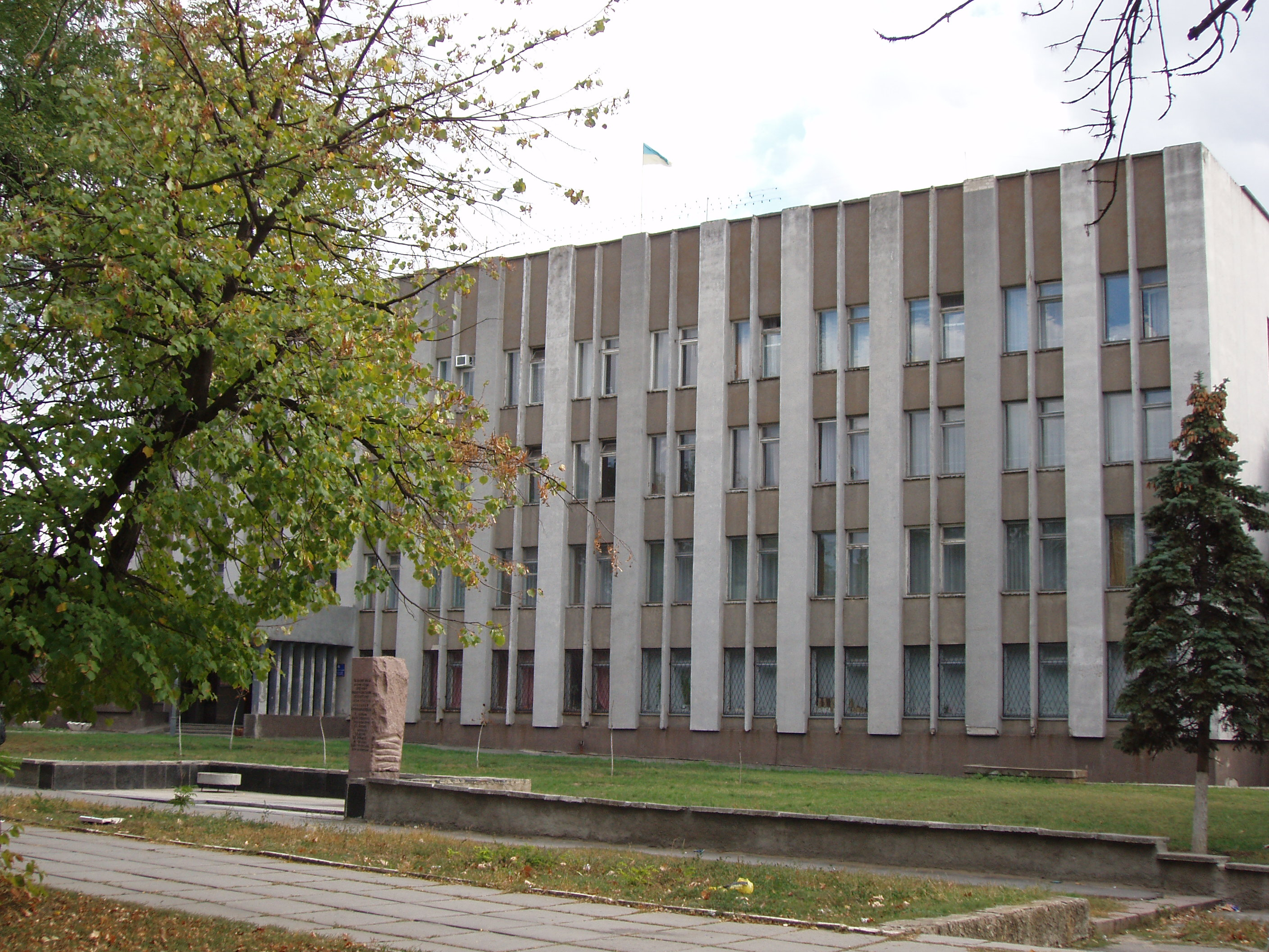 Kherson city Suvorov raion hall